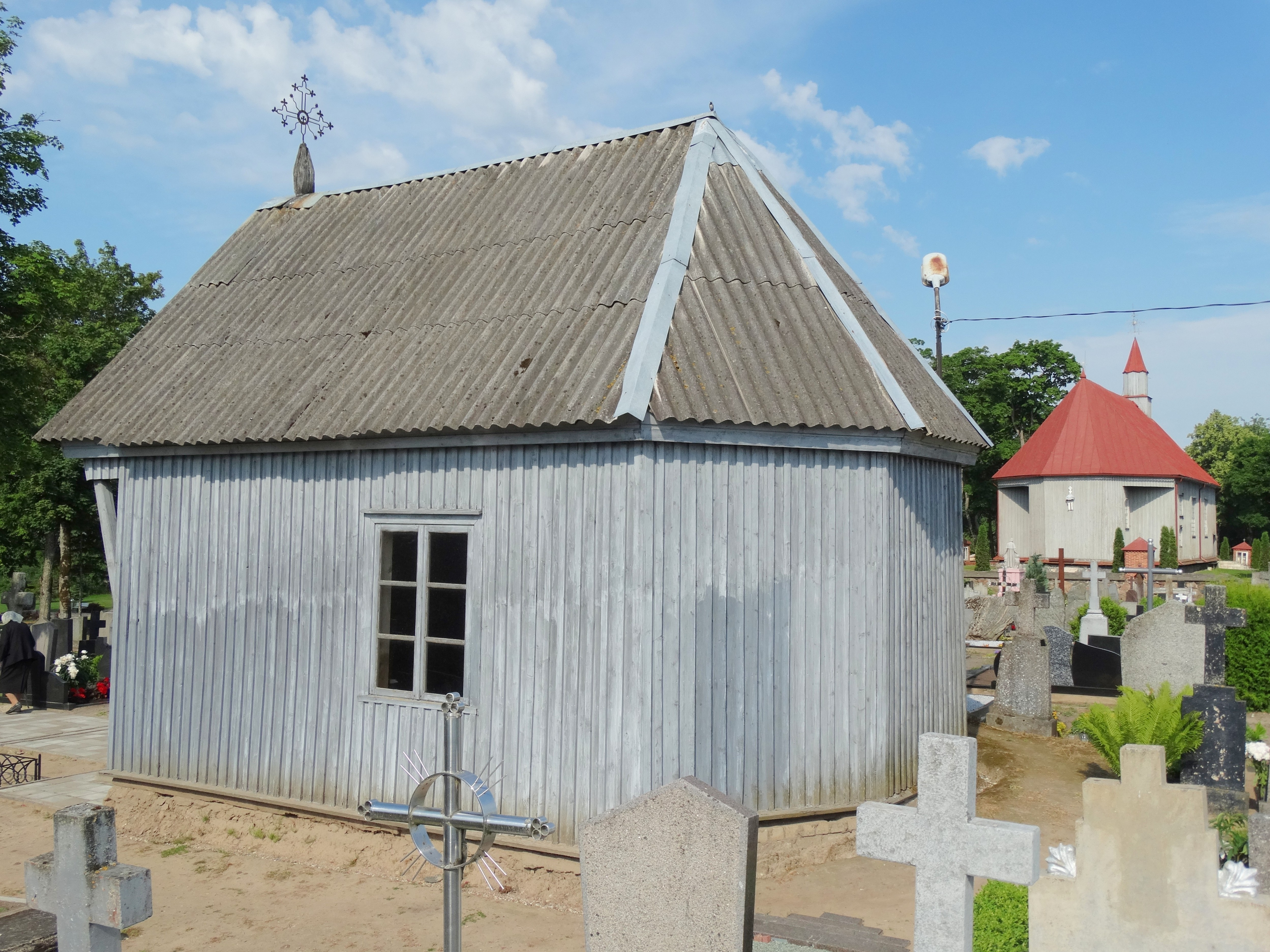 Chapel, Janapolė, Telšiai District, Lithuania